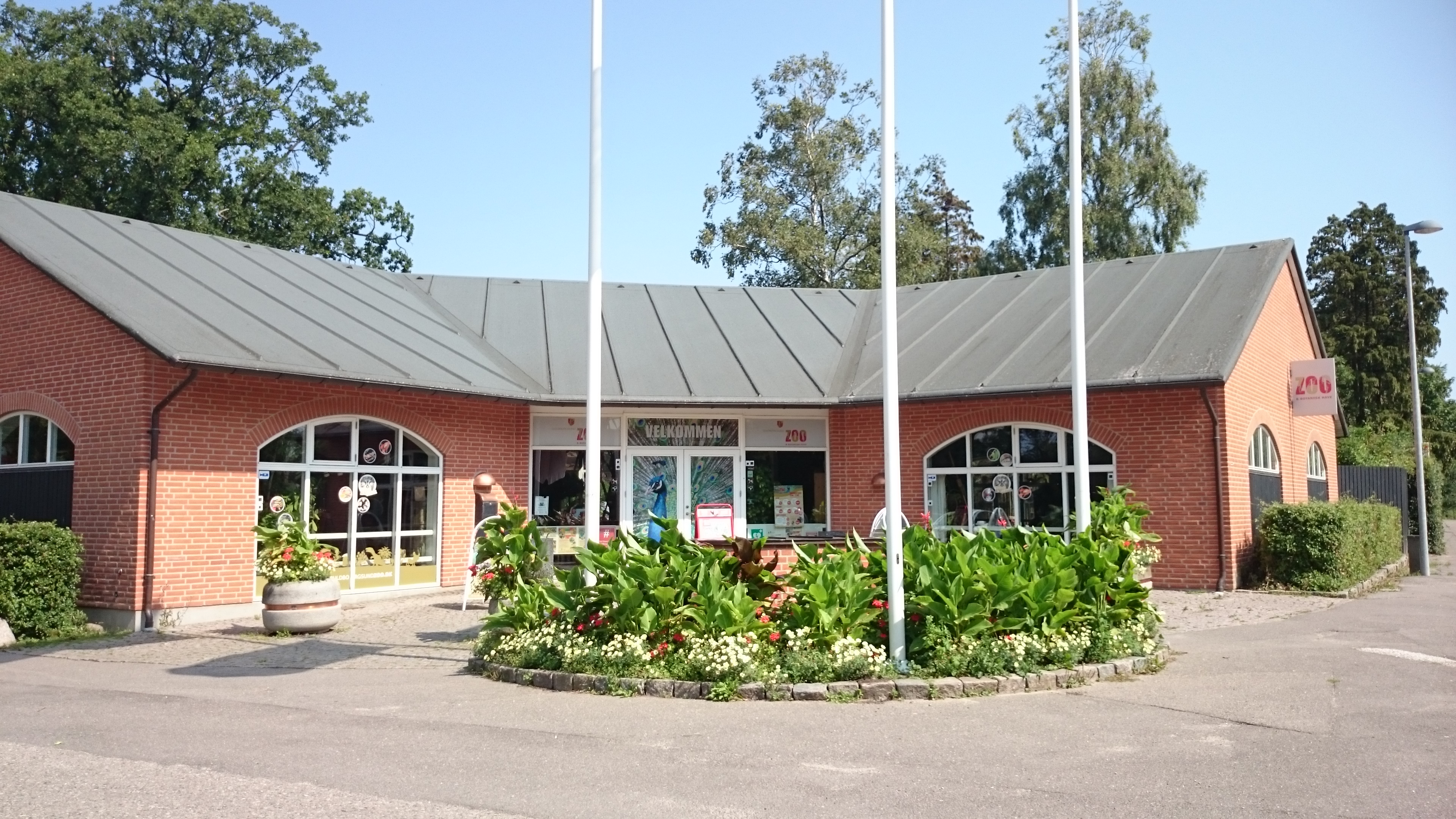 The entrance to Guldborgsund Zoo in Nykøbing Falster, Denmark.